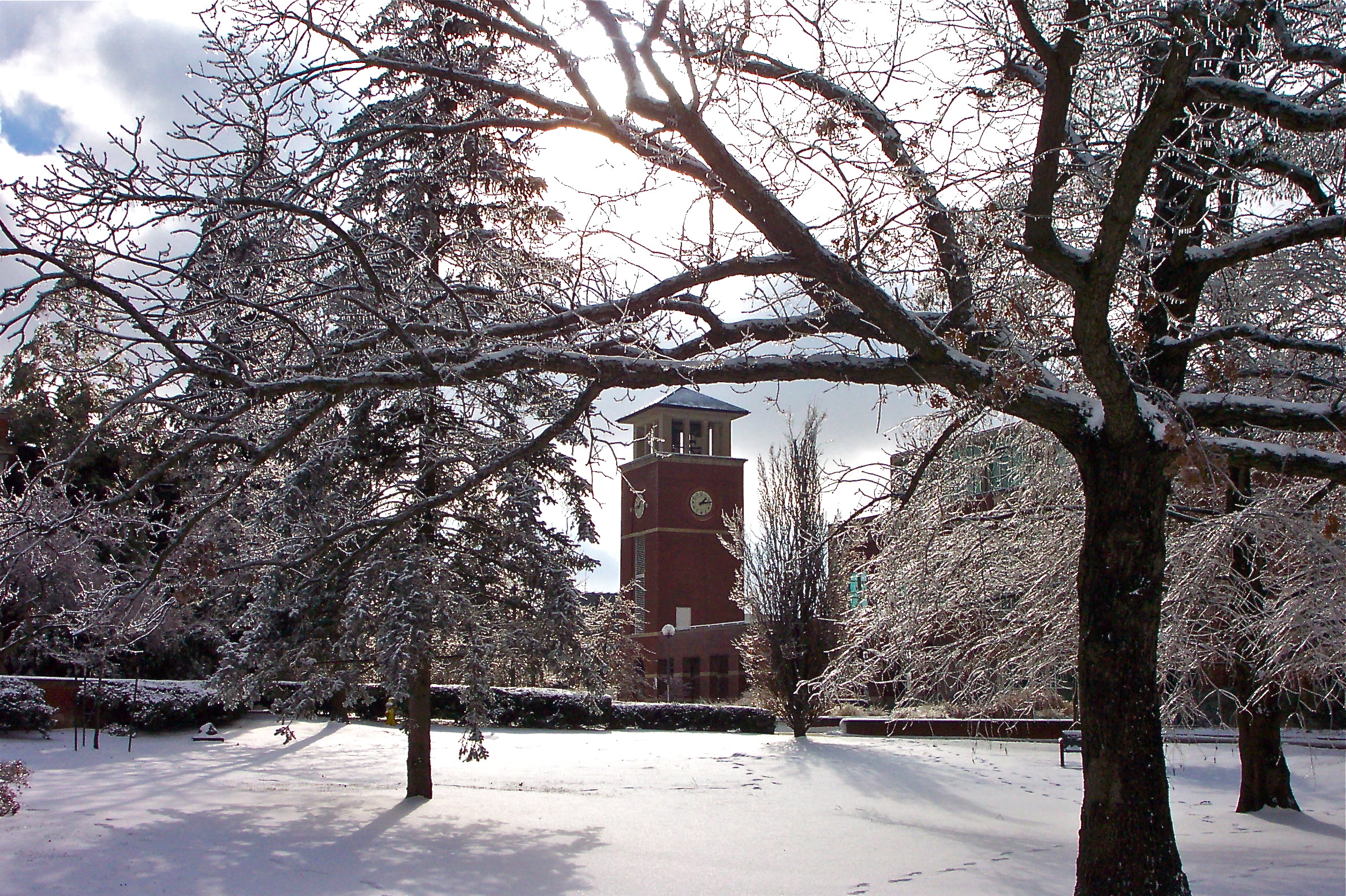 Truman State University Bell Tower from across the quad following an ice storm.